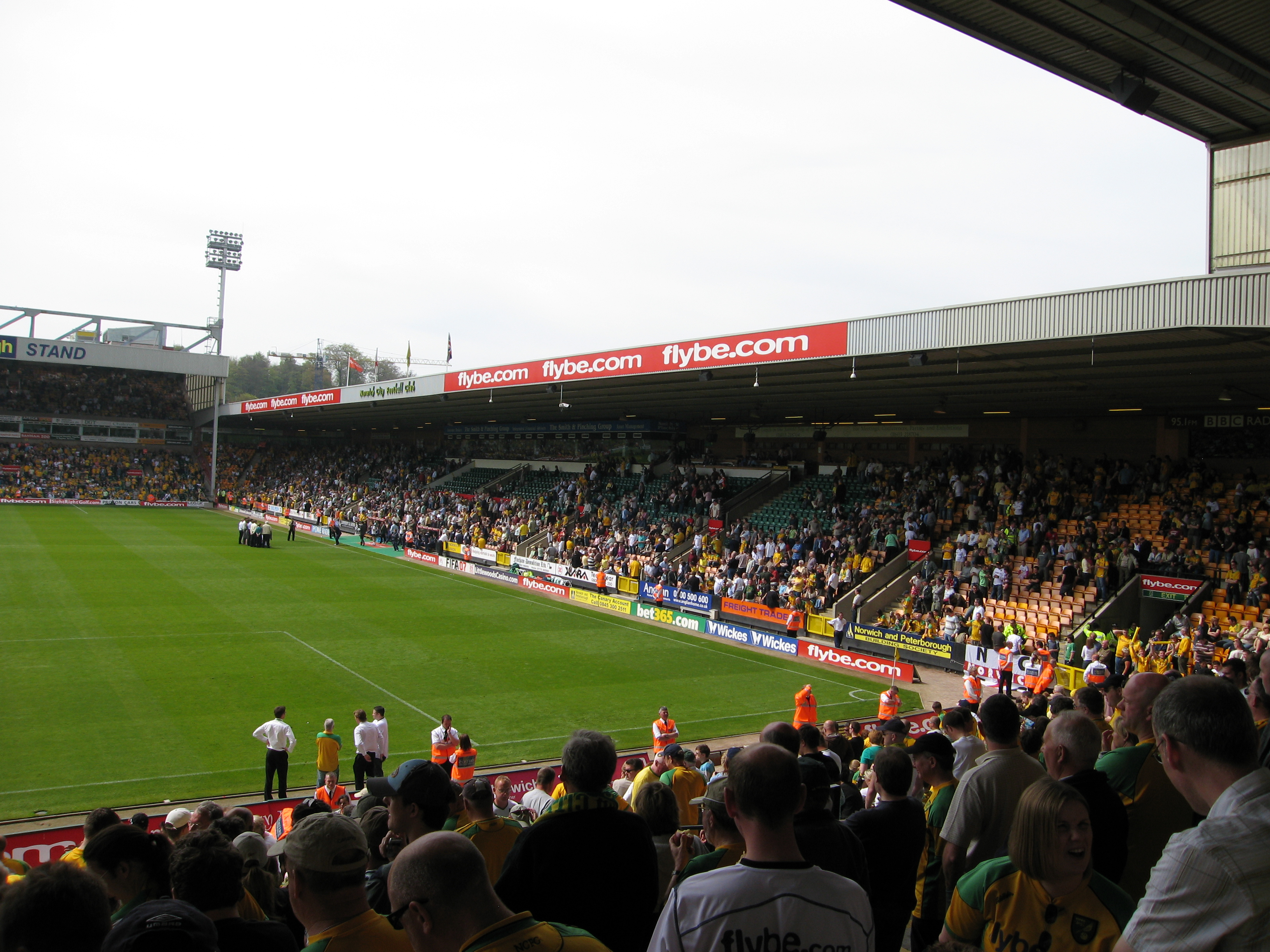 Photograph taken by MLS11 on 22 April 2007 Mls11 22:52, 23 April 2007 (UTC)